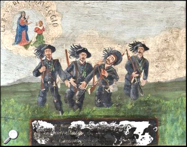 Ex voto of bersagliere wounded, but not killed by brigand Scoppettiello” (Giuseppe Miglionico) to "Madonna di Caravaggio"